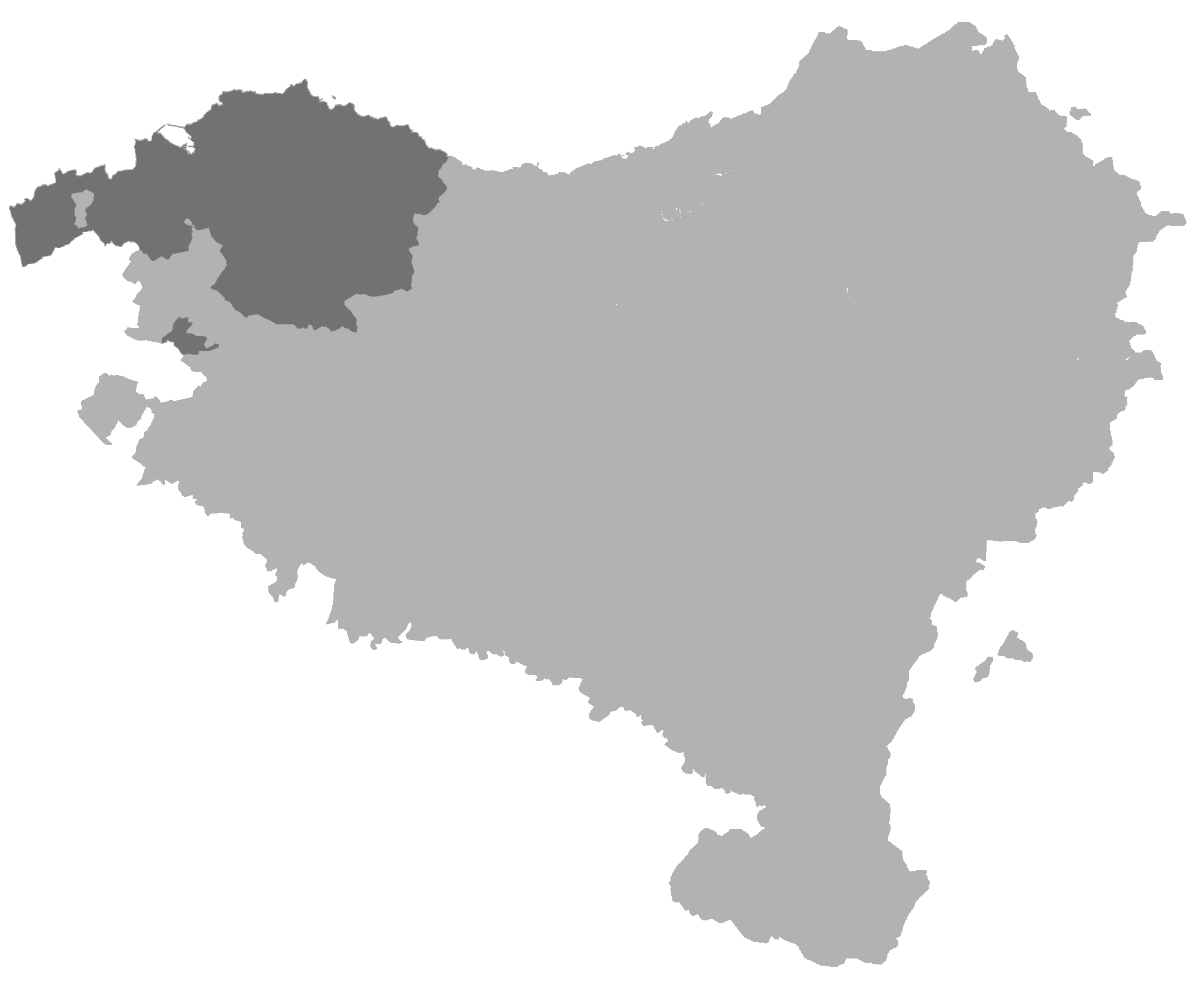 Map depicting situation of Bizkaia in Euskal Herria.